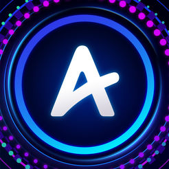 The logo of Amino Apps after Mai 2019